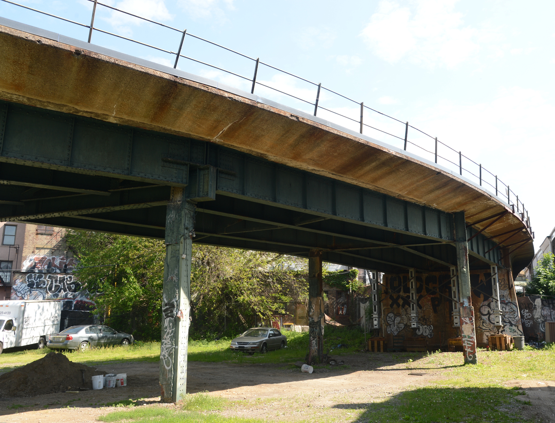 General views of the Myrtle Viaduct near Broadway & Myrtle Ave. that carries the M line north, diverging from the J/Z on Thu., May 18, 2016, before reconstruction. The viaduct's condition necessitated total replacement. Photo: Marc A. Hermann / MTA New York City Transit